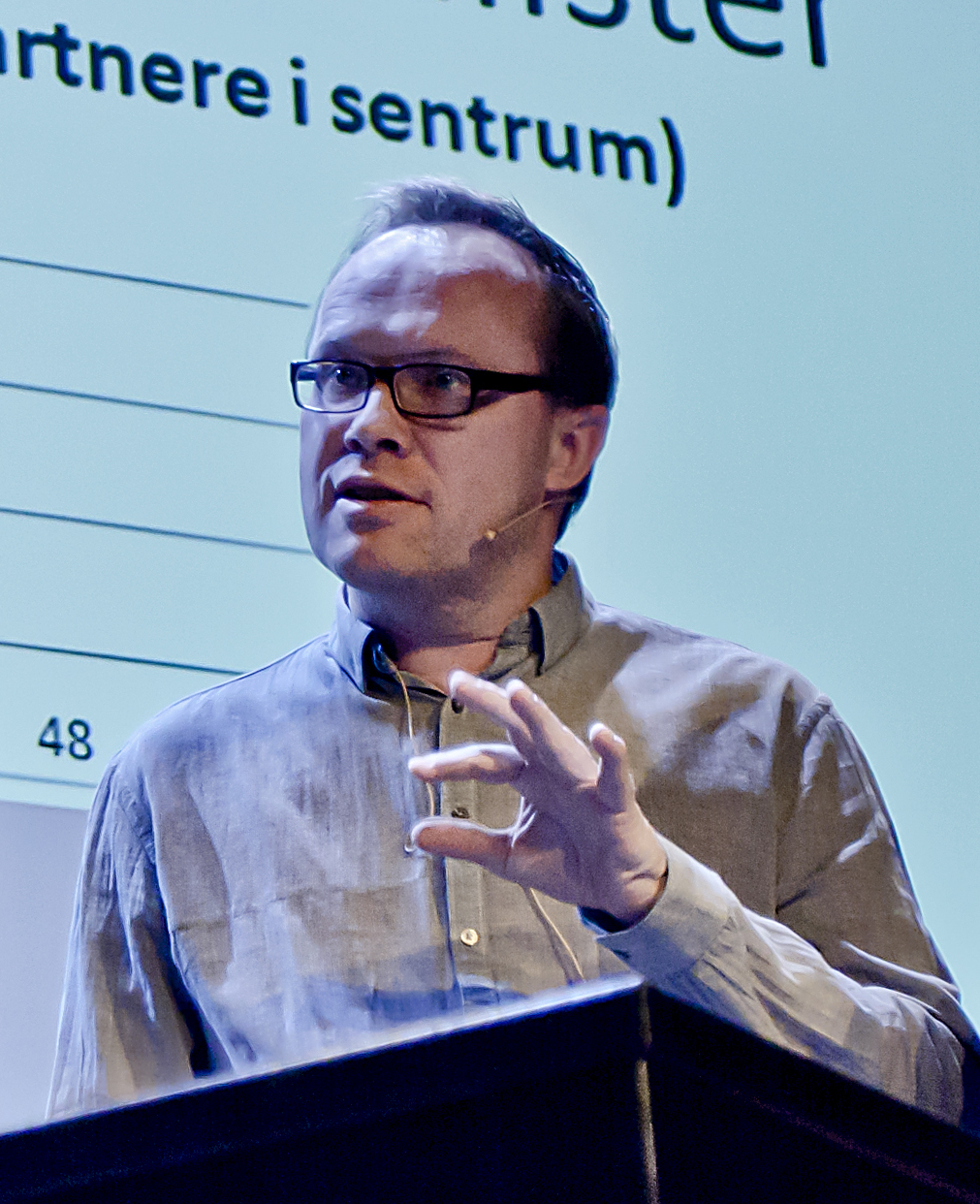 Foto: Jarle H. Moe